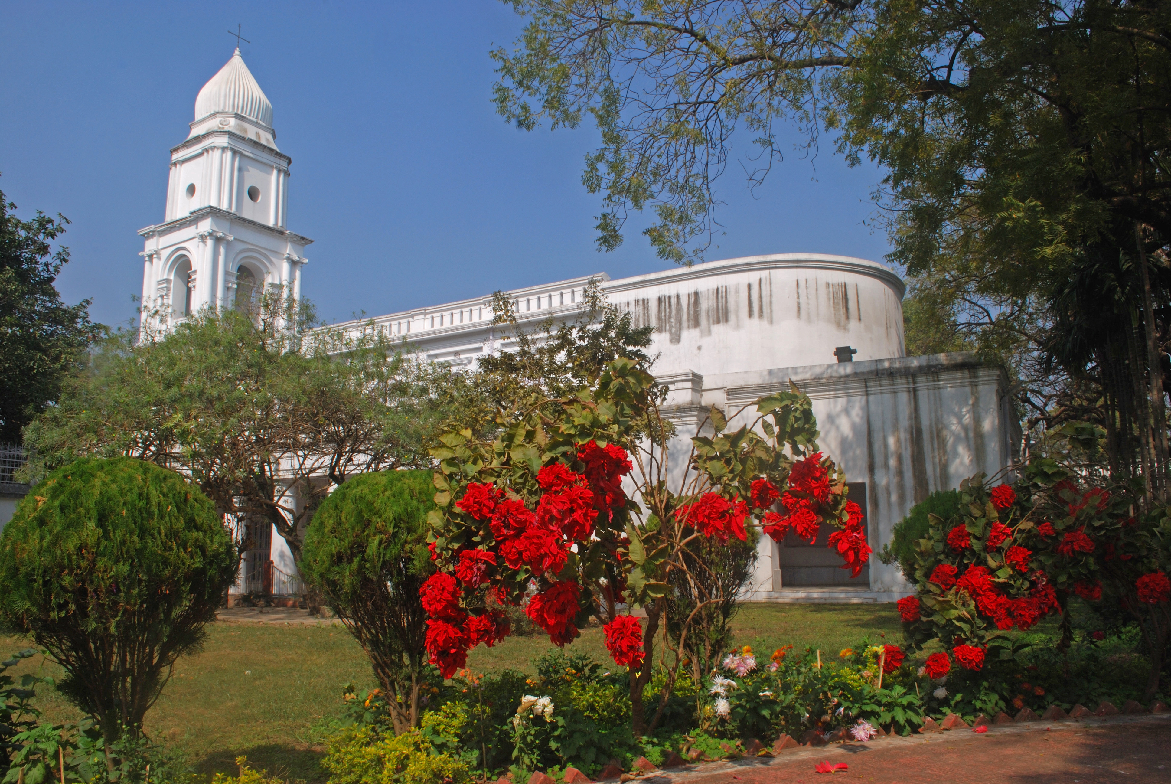 St. John the Baptist Church (Armenian Church), Chinsurah, Hooghly